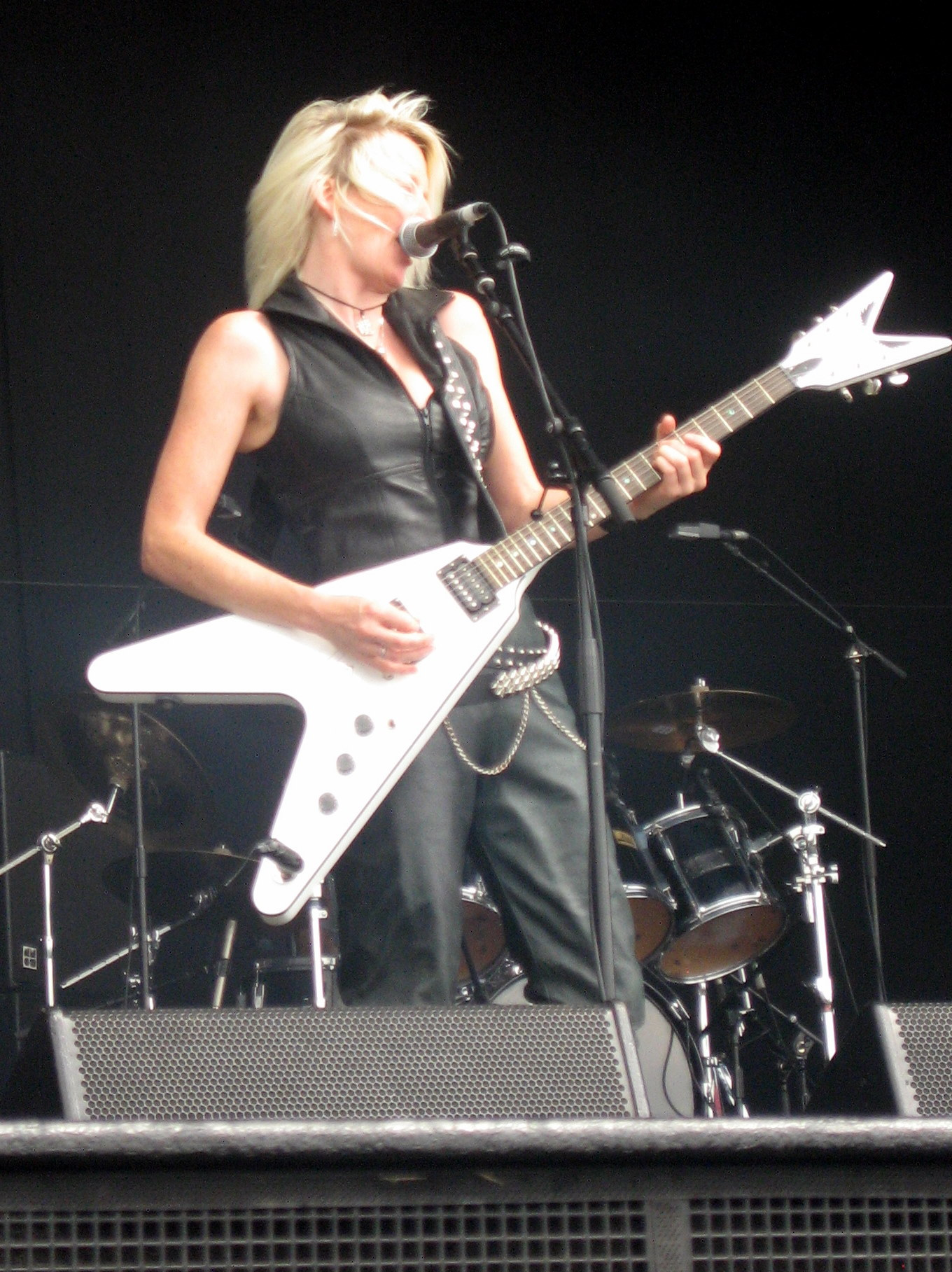 Jackie Chambers of the Heavy metal band Girlschool at Bloodstock Open Air 2009